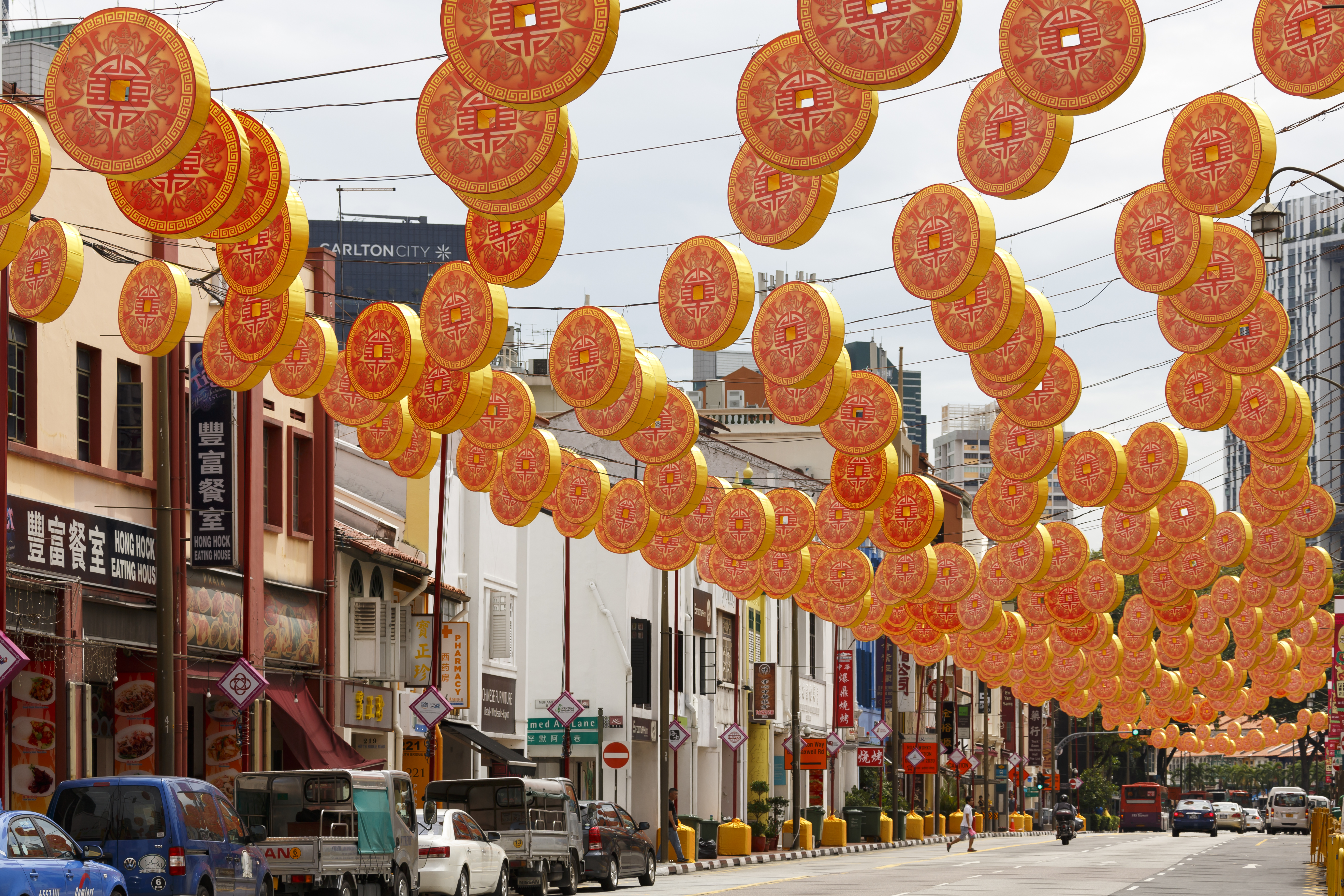 Singapore: South Bridge Road in front of Sri Mariamman Temple.